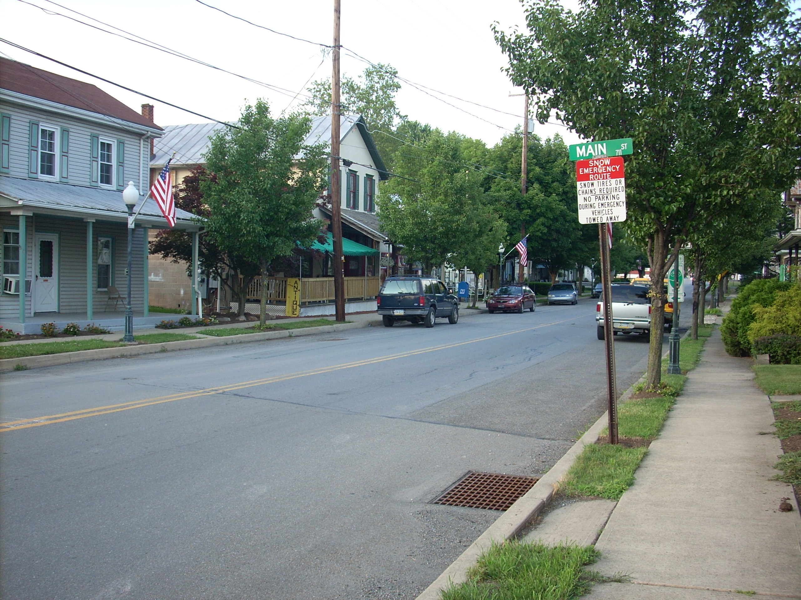 A view down Main Street in Dewart, Pennsylvania a village in Delaware Township, Northumberland County.